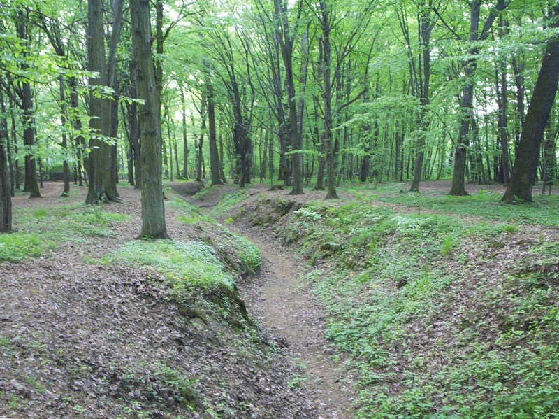 Nature reserve Parów Sójek in Podkowa Leśna, Poland.